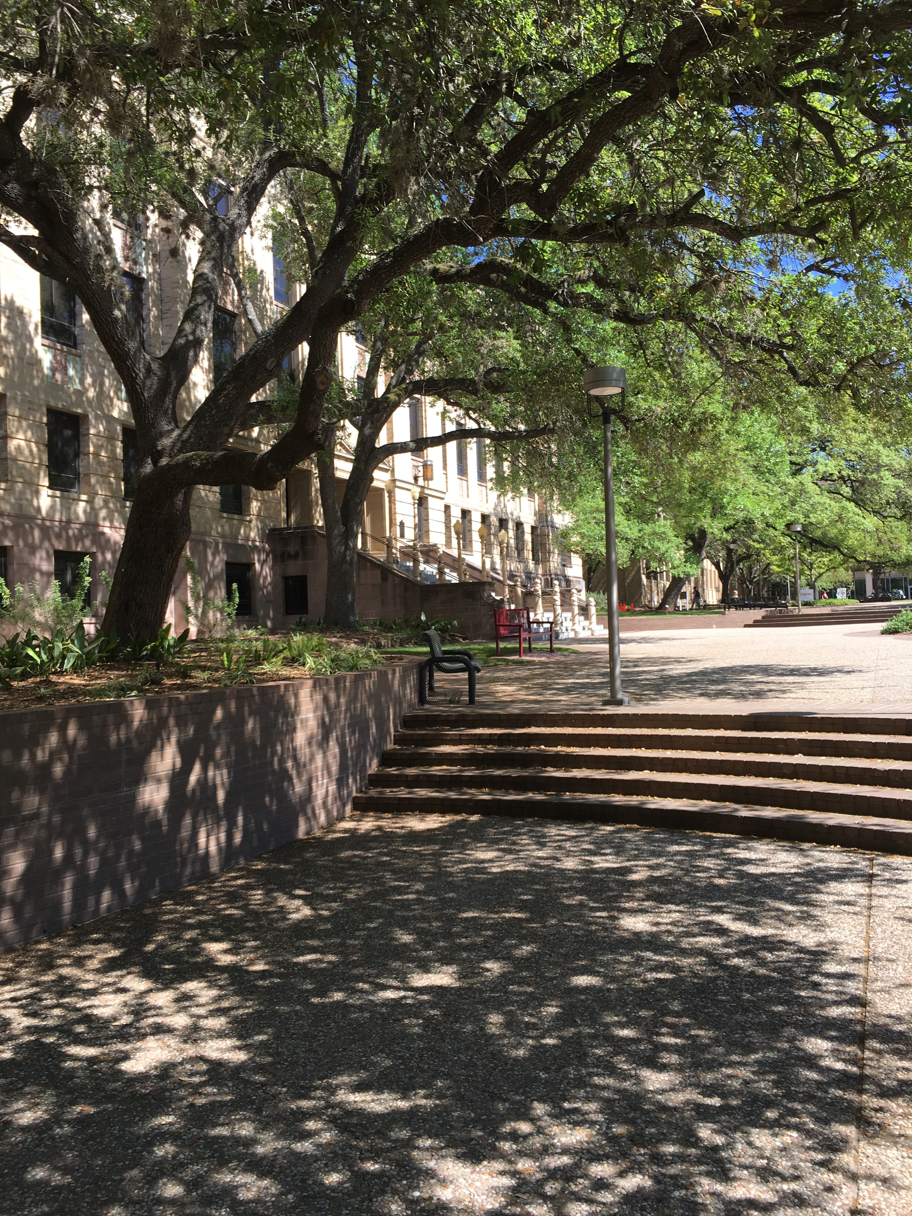 Texas A&M University Chemistry Building and Fountain Plaza